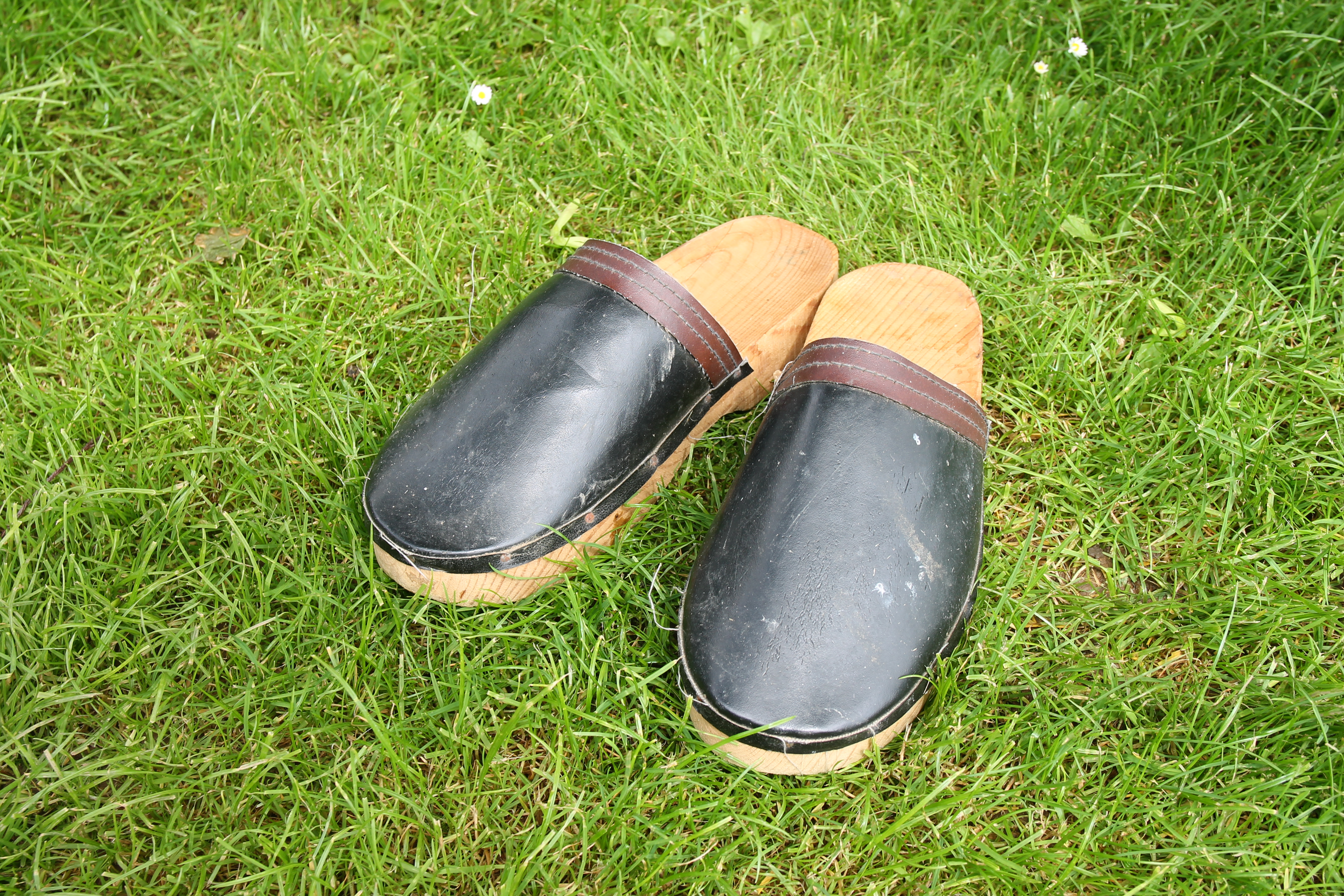 Mejšle, traditional shoes of Bohemian Forest